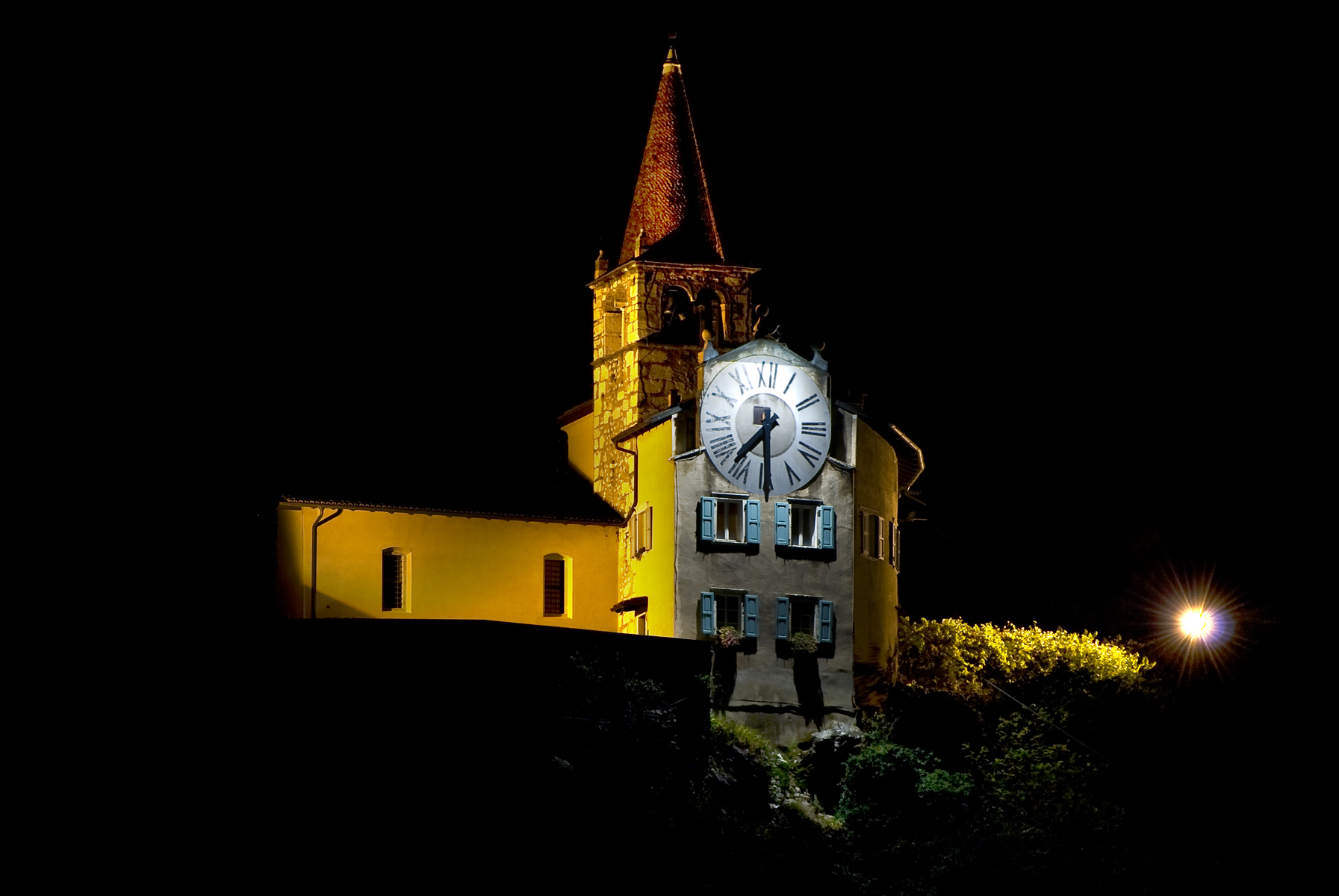 Sanctuary Montalbano Mori (Trento) at night